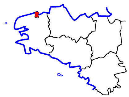 Description: Map for localisazion of cantons of Bretagne region in France Source: made by Hervé Tigier in april 2005 from another large map (published in 1990)